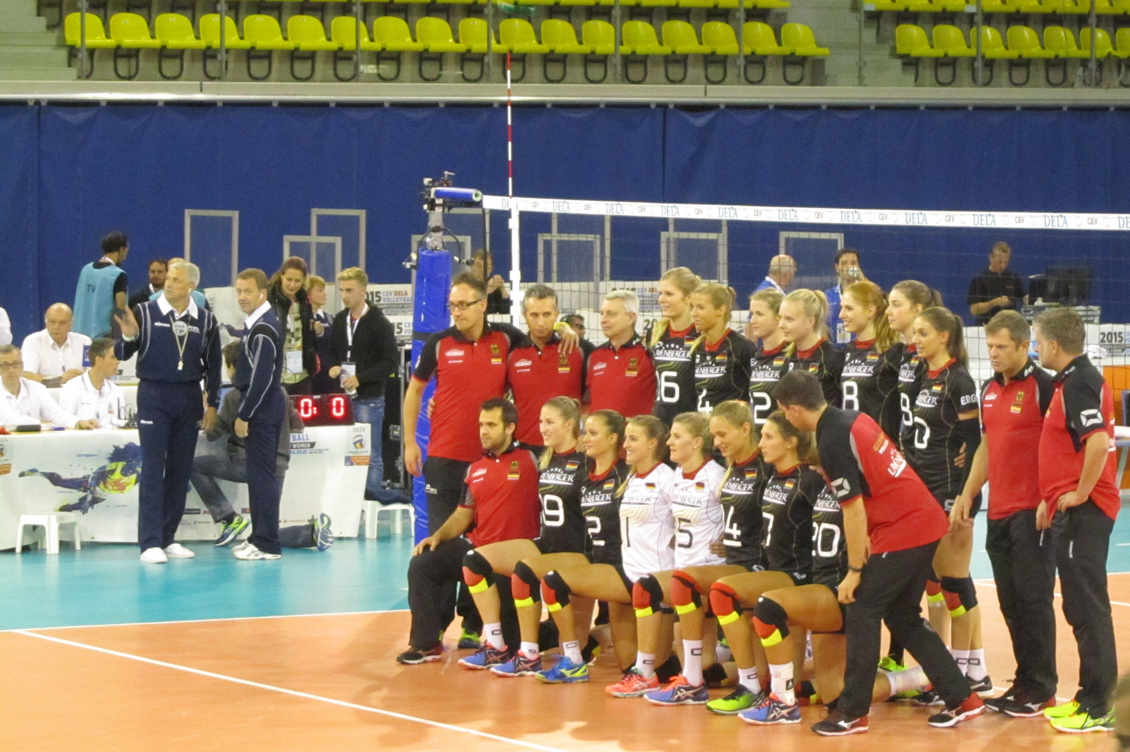 Germany women's national volleyball team before the match vs Serbia at the European championship 2015 in Eindhoven (Netherlands)